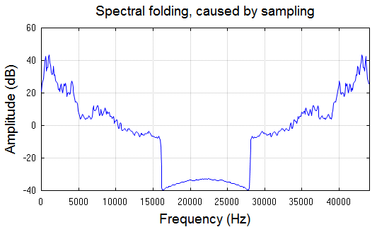 When a continuous-time function is sampled, it becomes indistinguishable from other functions (called aliases) that match the same set of samples. In the frequency domain (Fourier transform), the aliases appear as new frequencies that aren't in the original function. In this example, the original frequency content is between 0 and 22050 Hz. The region [22050,44100] contains new content caused by sampling at 44100 samples/sec. The mirror image effect is referred to as "folding".